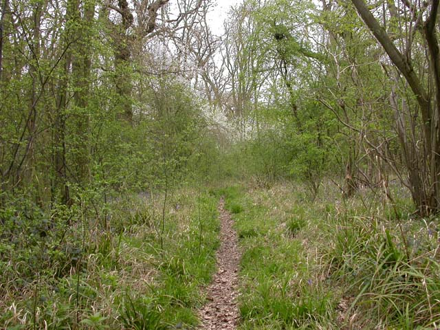 Footpath through the Wood. There are quite a few small and pleasant footpaths like this through Swineshead Wood.